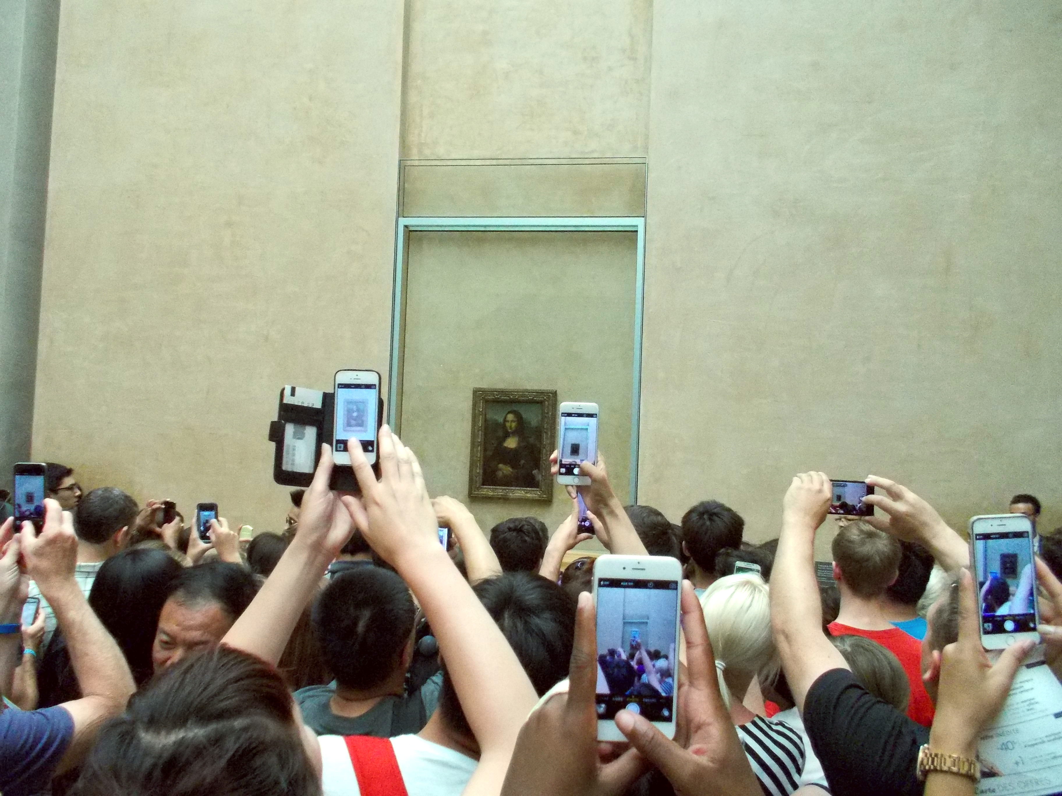 Tourists photographing Gioconda